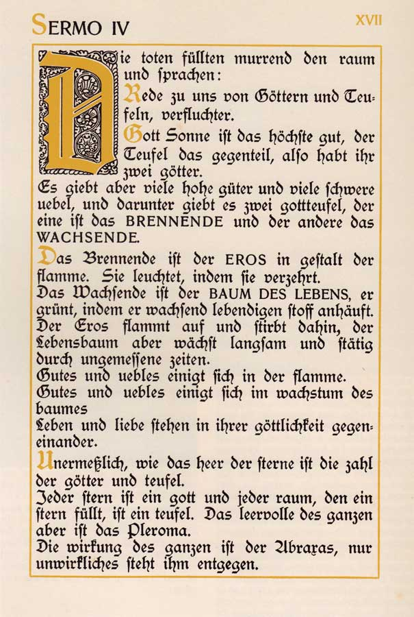 A page of C. G. Jung's original 1916 publication, Septem Sermones ad Mortuos